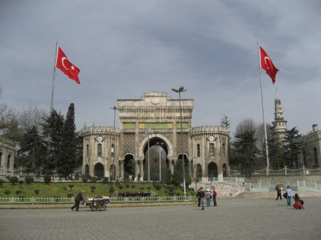 Main gate to Istanbul University at Beyazid Tower